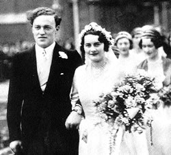 Elizabeth Pakenham, Countess of Longford, C.B.E., better known as Elizabeth Longford (August 30, 1906 – October 23, 2002) was a British author.